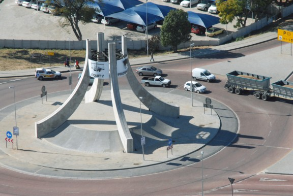 New Traffic Circle in Polokwane